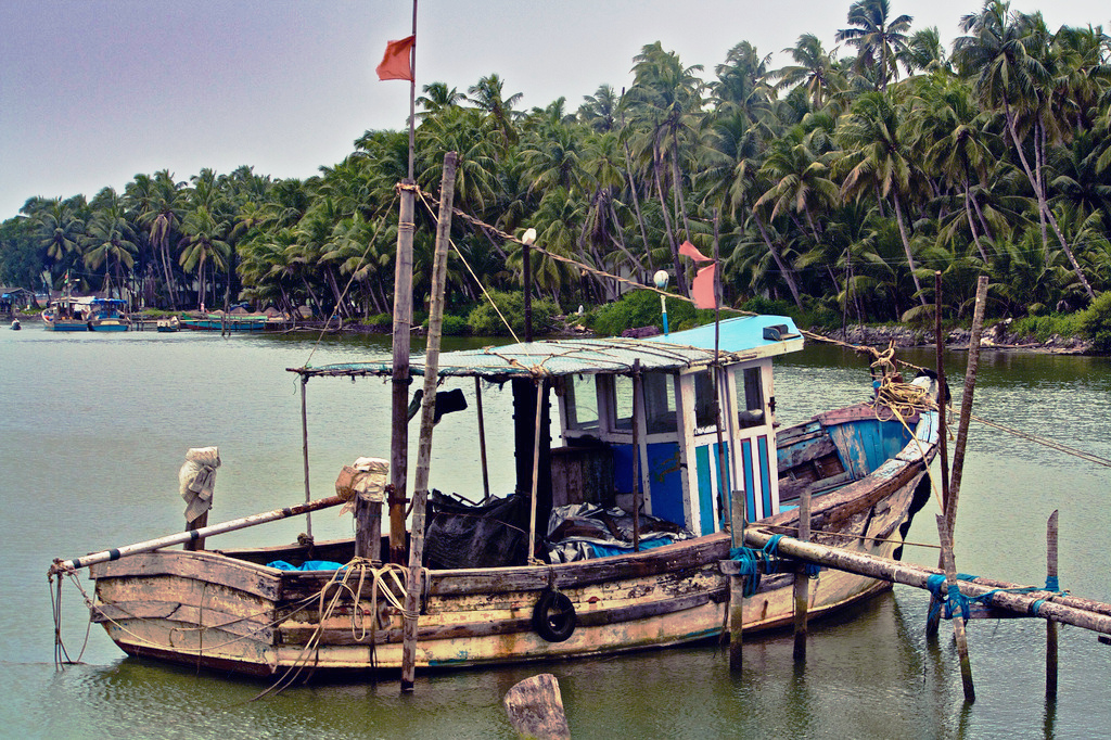 Another Boat anchored on the bank of Mattul River. Mattul is where I am hailing from. Its a harbor mouth having a beautiful beach and river.